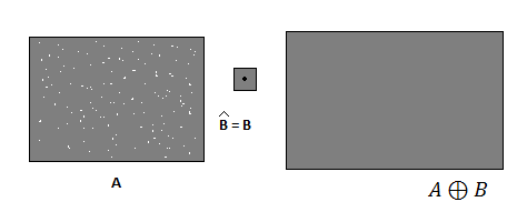 depiction of gap closing using dilatation